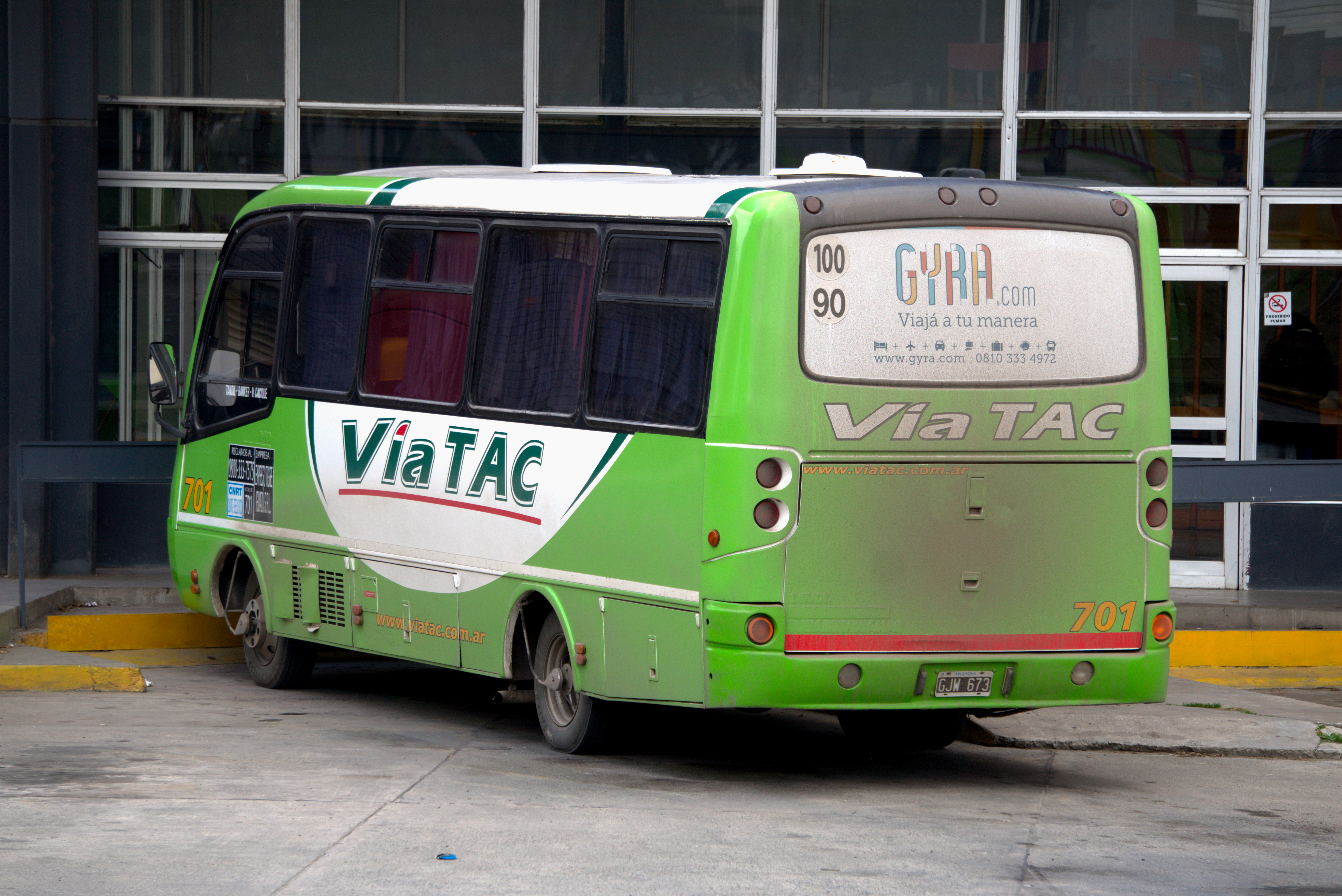 Minibus of company ViaTAC, parked in Tandil, Argentina